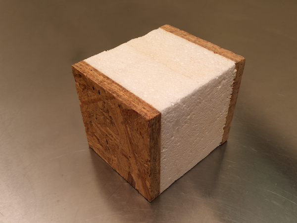 Sample of a SIPs pannel.